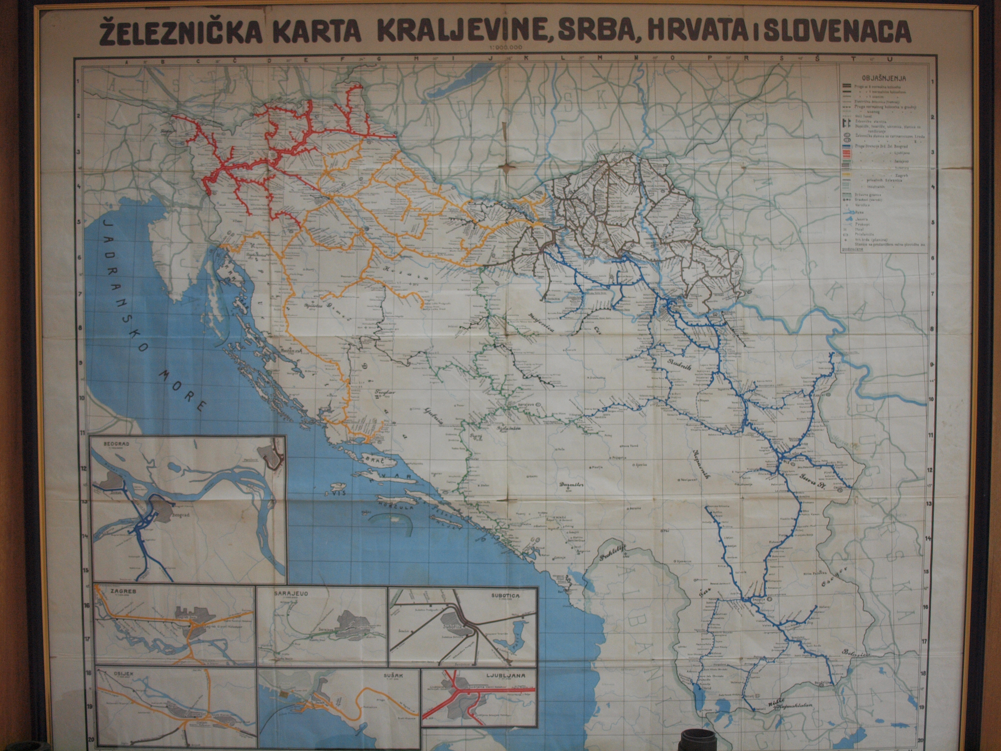 Railway lines in the Kingdom of Serbs, Croats and Slovenes (1918-1929). The Lika line between Ogulin and Knin, which was completed in 1925 is already in the map.